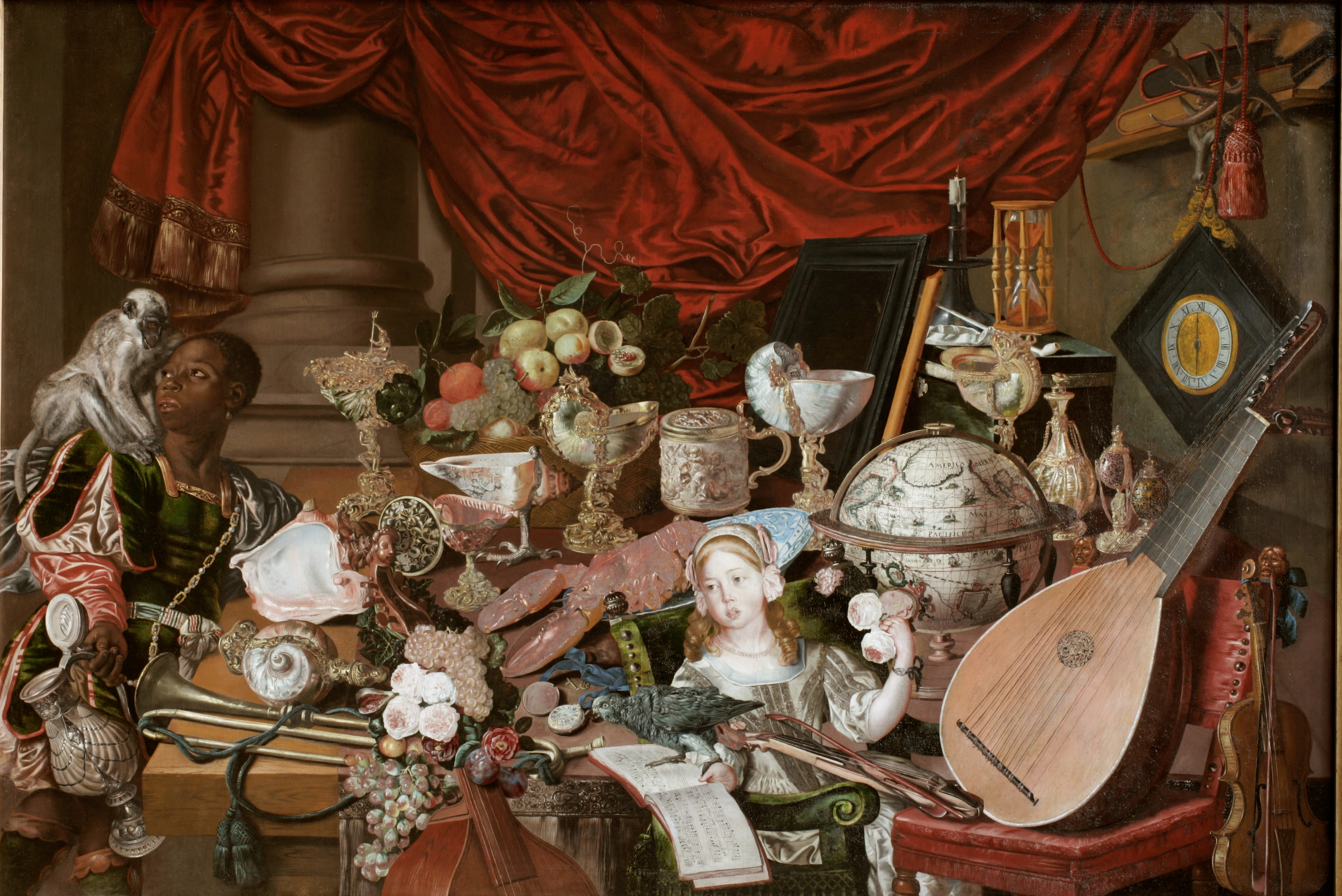 Dutch School anon.